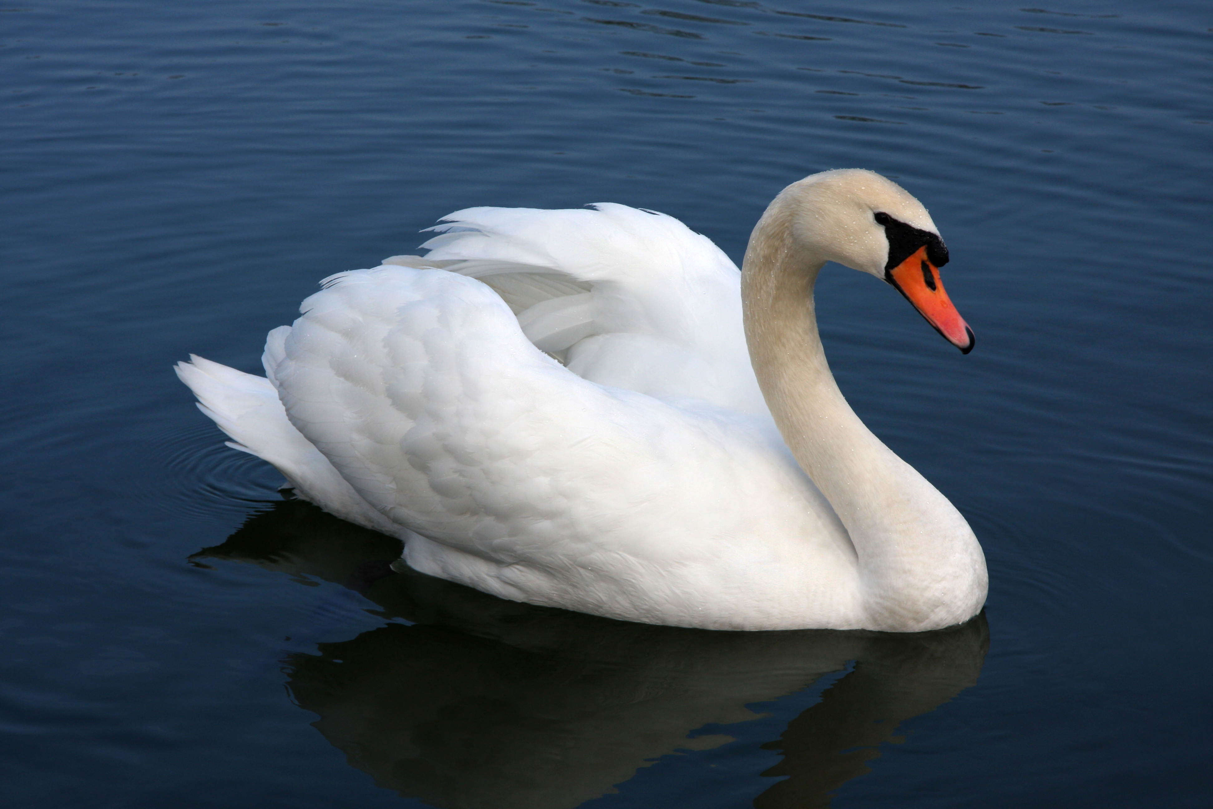 An adult mute swan (Cygnus olor) in a pond near Vrhnika, Slovenia.